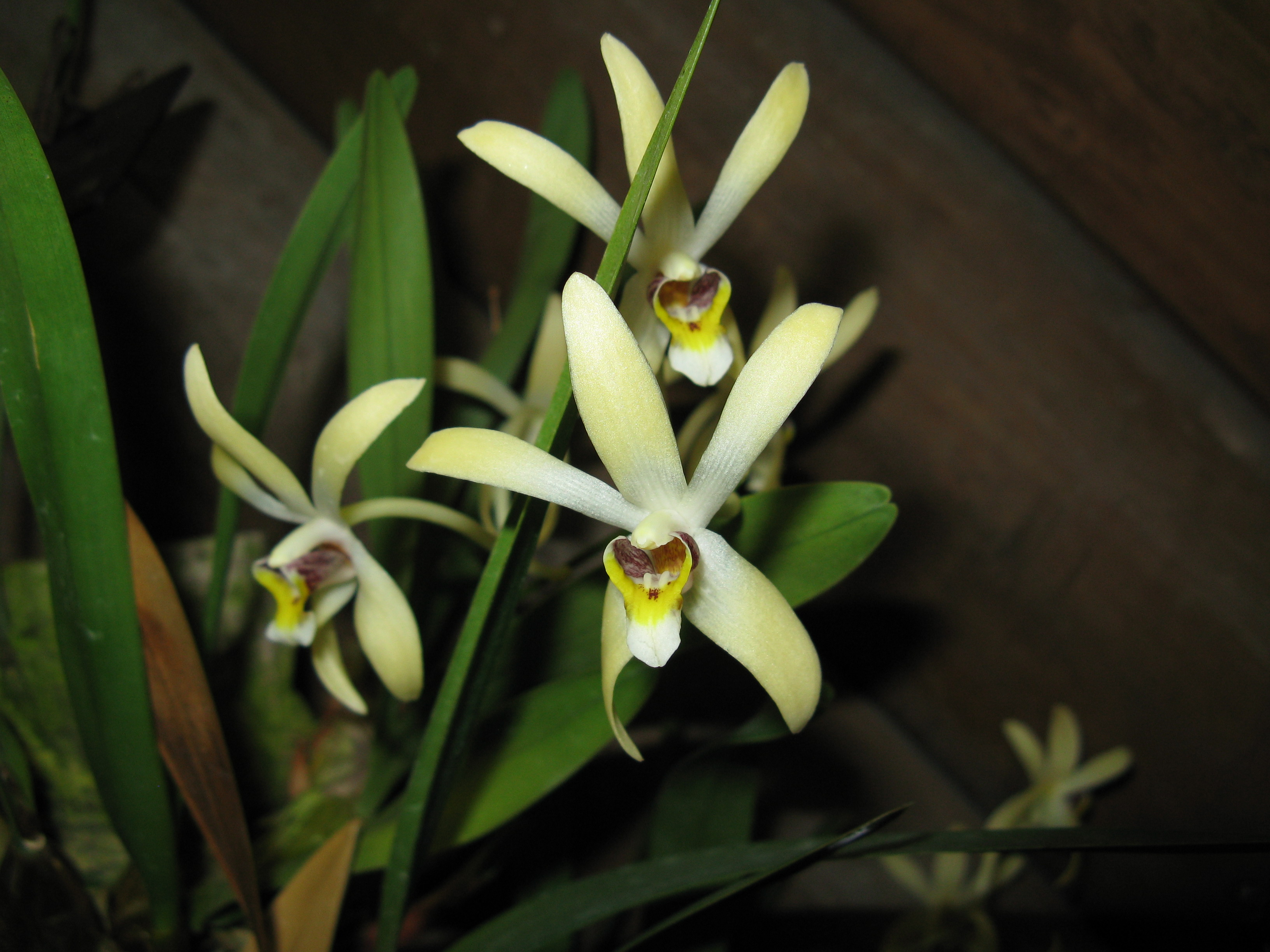 Scientific name Epigeneium triflorum var. orientale Place:Osaka Prefectural Flower Garden,Osaka,Japan